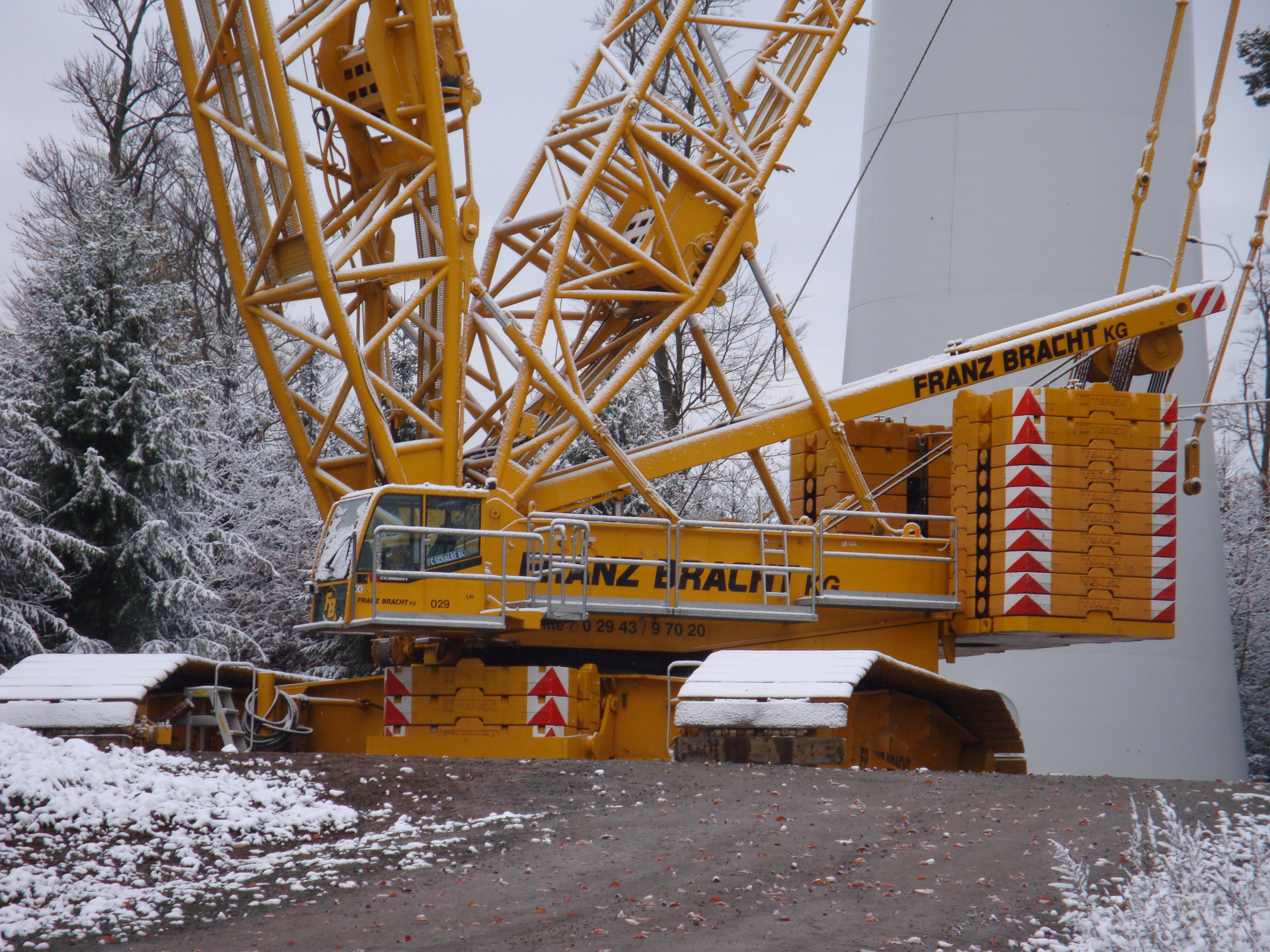 Terex Demag CC 2800-1